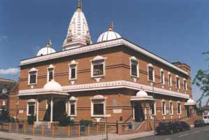 Swaminarayan temple, London (Willesden)